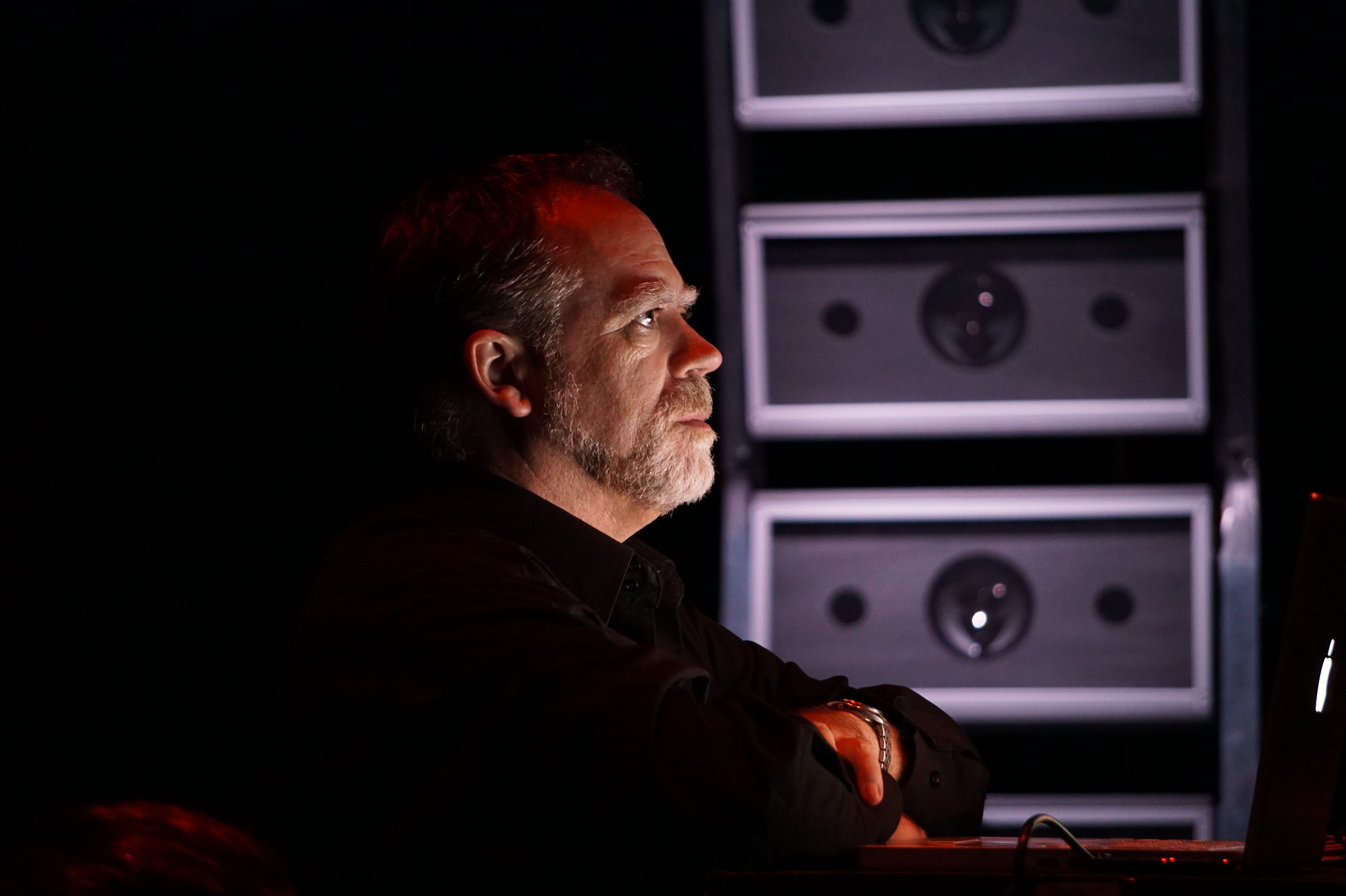 Steve Heimbecker monitors sound recording levels during his Sonic Jello sound immersion concert series (Sept 02 to 05) in 2015, after his year long Canada Council Artist residency at UQAM. He is using an 8-channel Holophone H2-Pro 7.1 and DAW located in the middle of his Turbulence Sound Matrix (2008). Sonic Jello: 64-Channel Immersion for the Body, Belly and Brain / Sonic Jello: Immersion en 64 canaux pour corps, viscères et cerveaux, Agora Hydro-Québec / Hexagram-UQAM, Montréal, QC. Project Titles: - Sonic Jello: 64-Channel Immersion for the Body, Belly and Brain - Sonic Jello: Immersion en 64 canaux pour corps, viscères et cerveaux - TSM - Sonic Jello sound immersion concert series